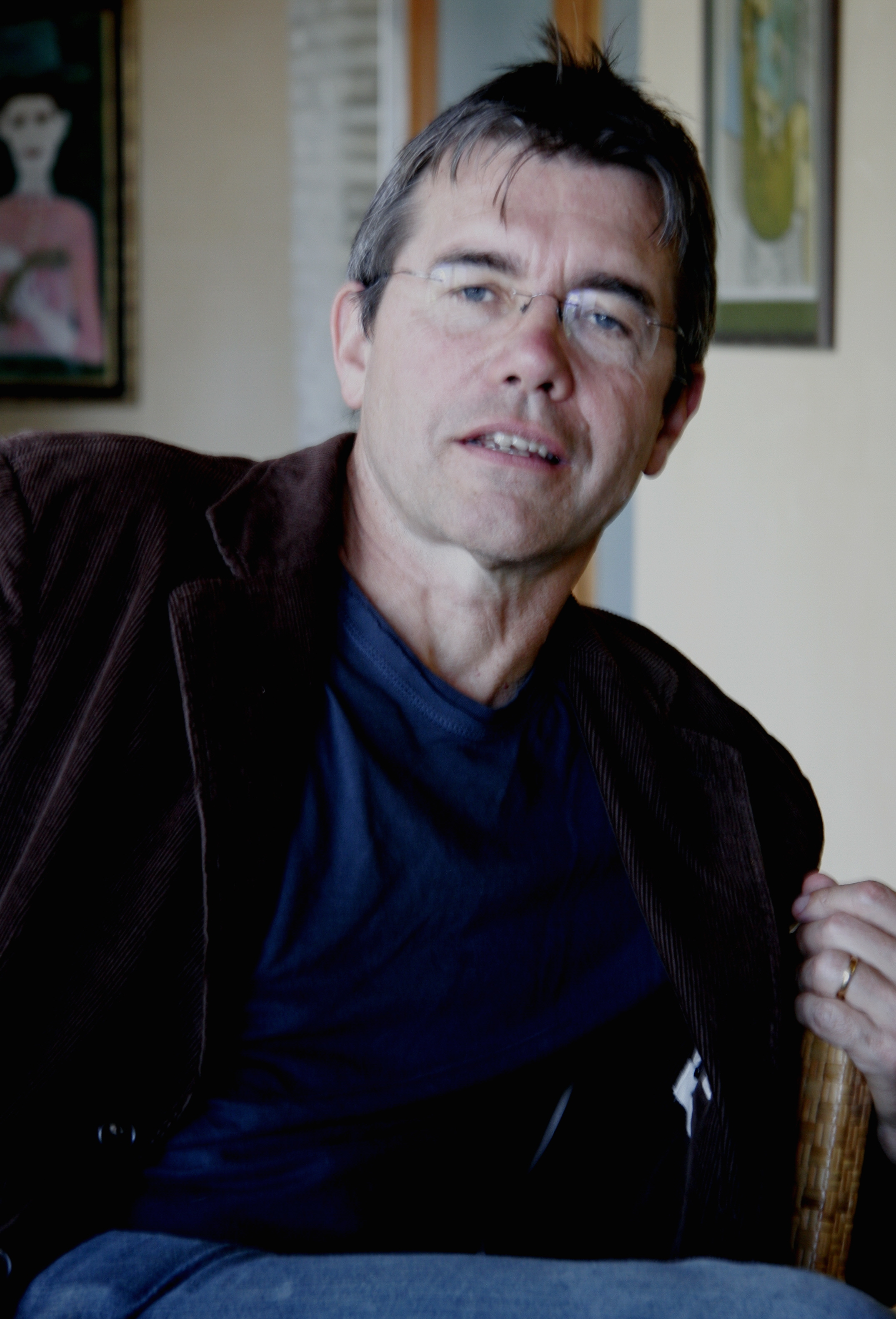 Stephen Gyllenhaal, American film director and poet